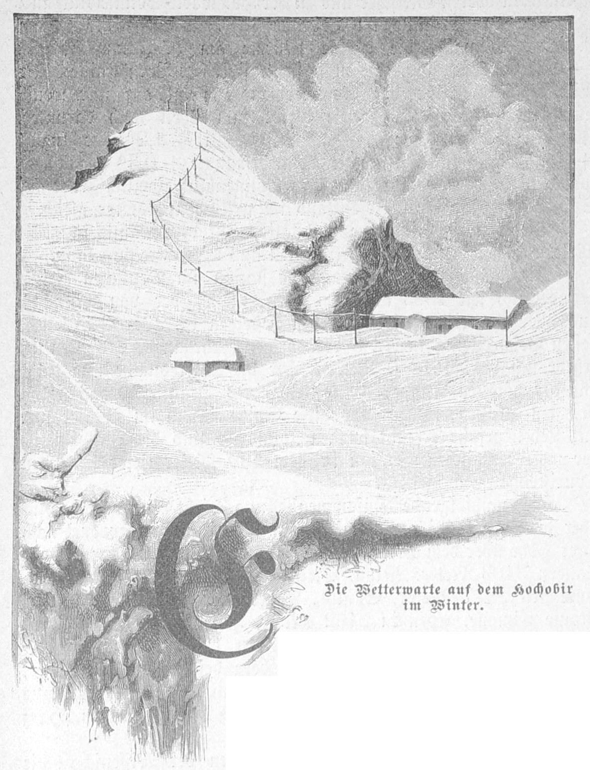 caption: "Die Wetterwarte auf dem Hochobir im Winter. "